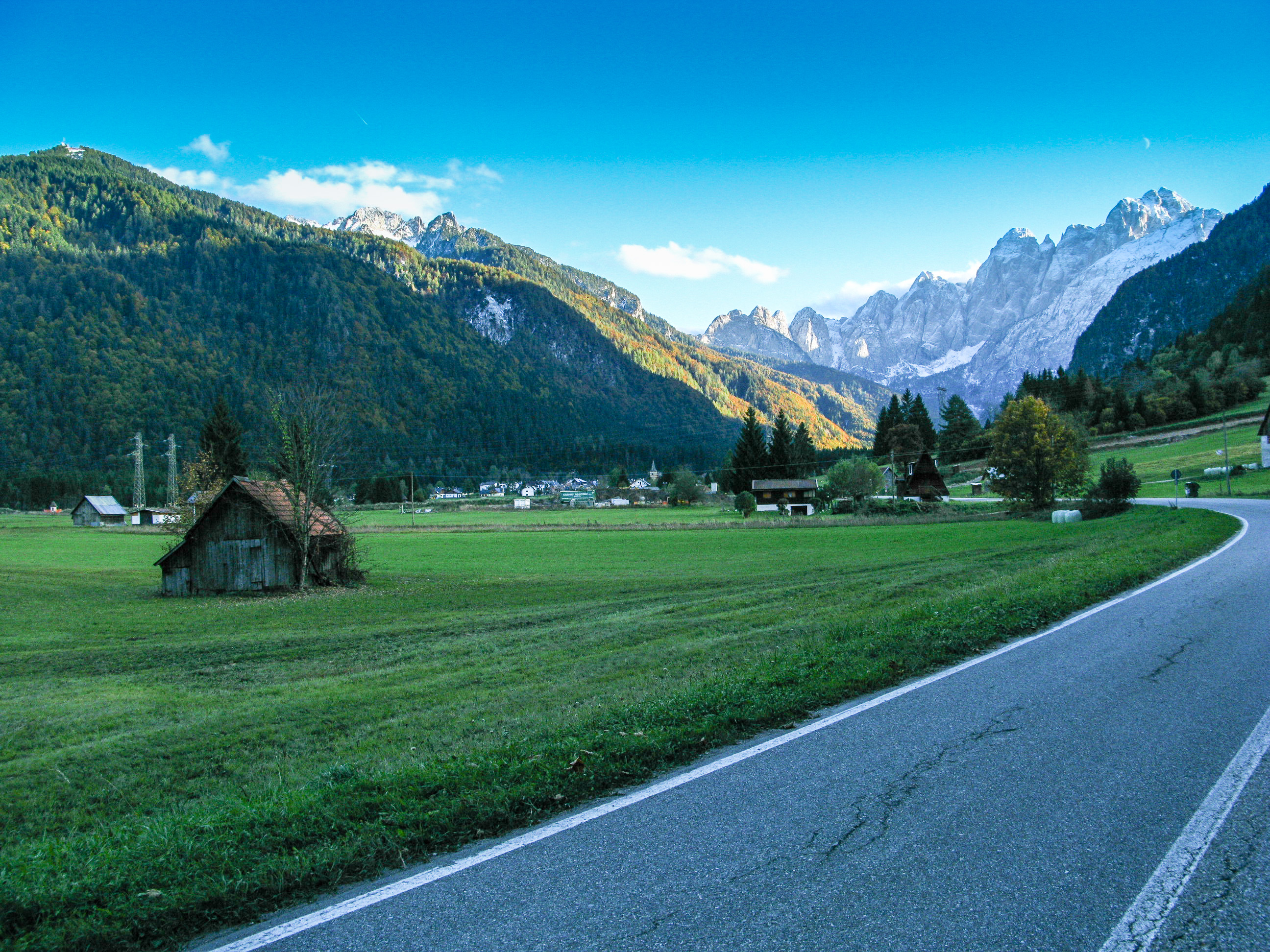 Valbruna in the community of Malborghetto in Val Canale / Friuli-Venezia Giulia / Italy / EU.